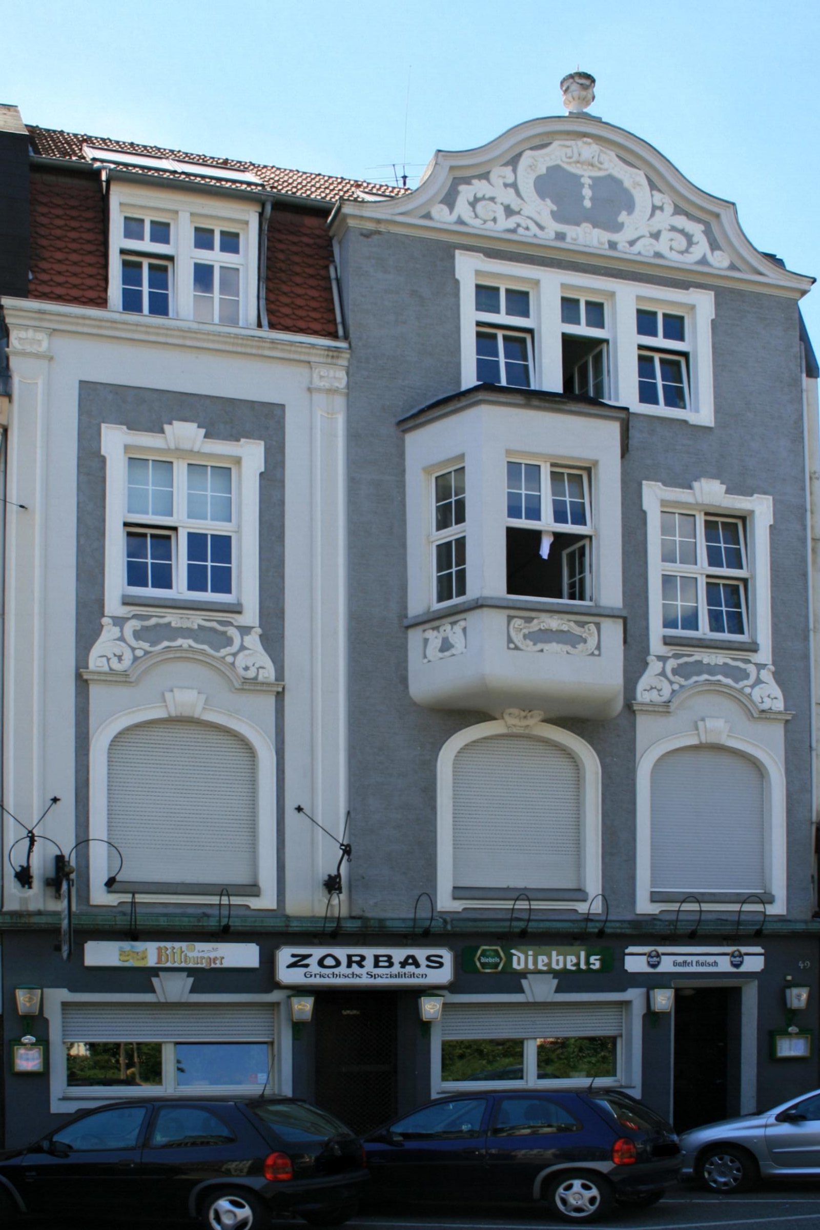 Cultural heritage monument No. Sch 038 in Mönchengladbach